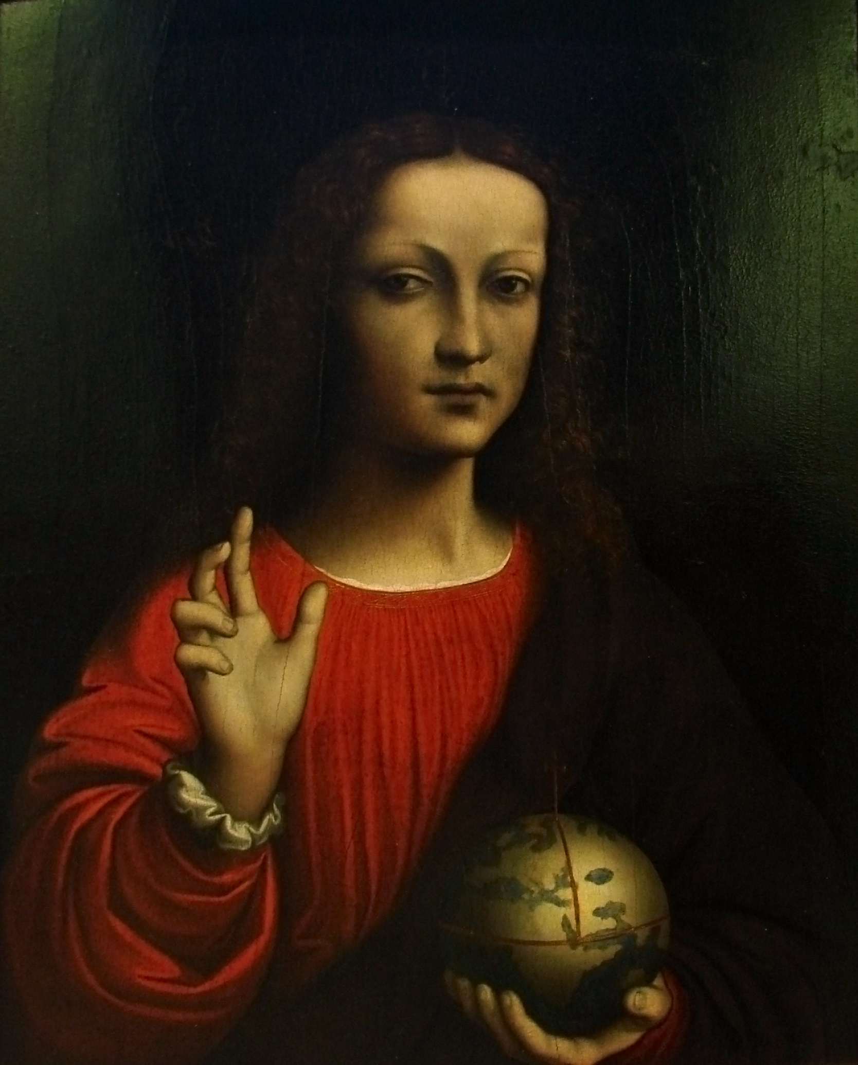 School of Leonardo da Vinci (formerly Attributed to)